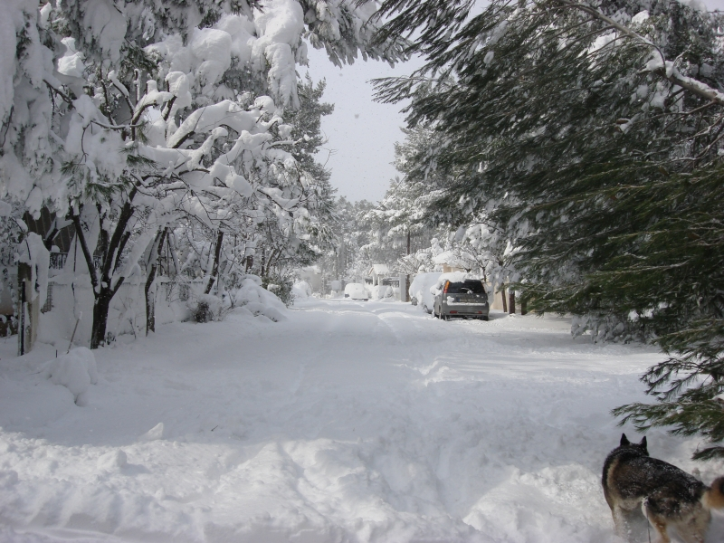 Euripidou Street, Dionysos,Greece in snow.